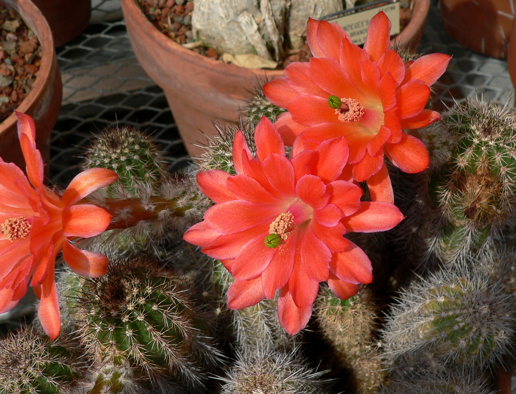 Echinocereus polyacanthus subsp. huitcholensis at the University of California Botanical Garden, Berkeley, California